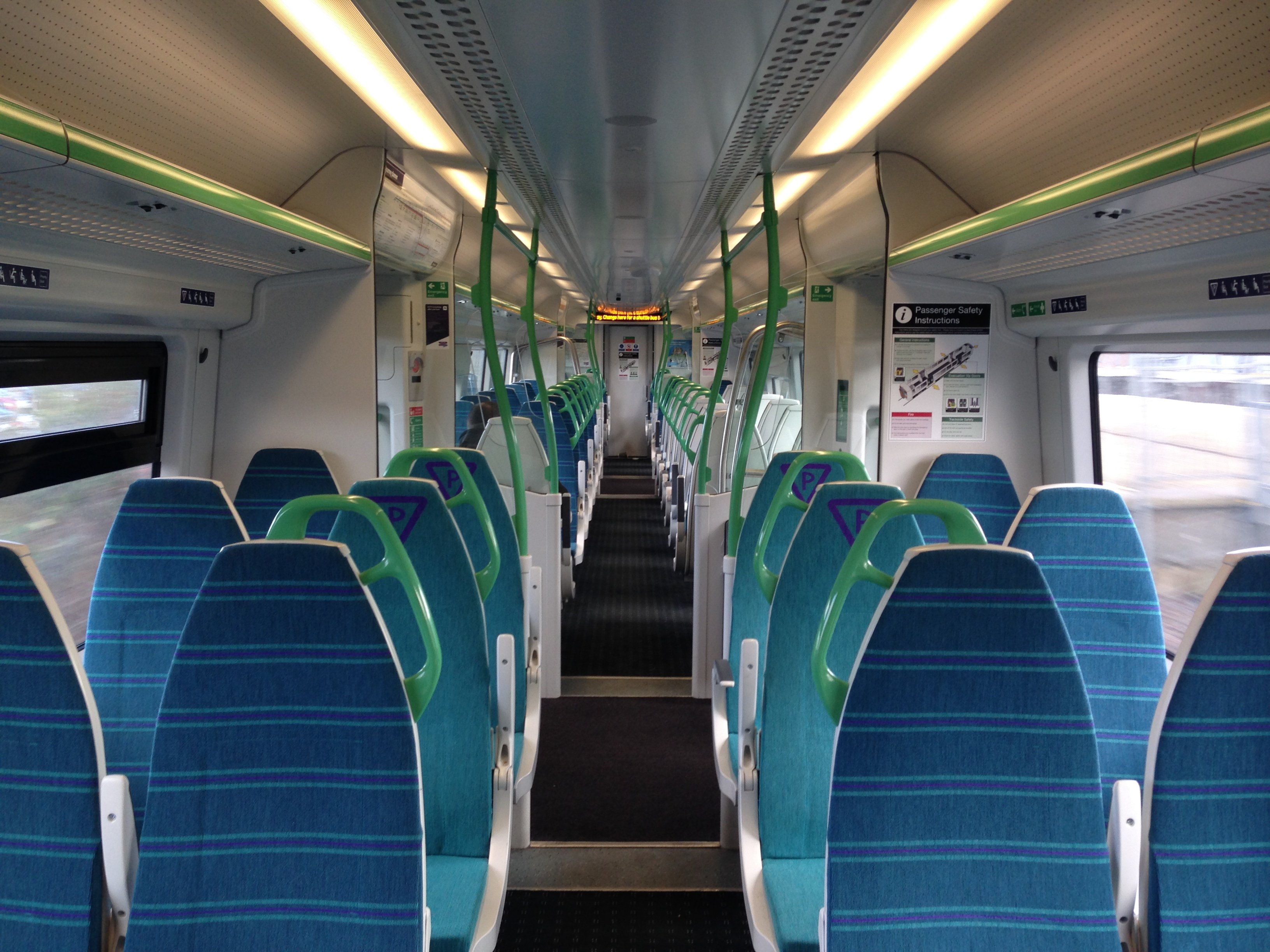 A Thameslink Class 387 train